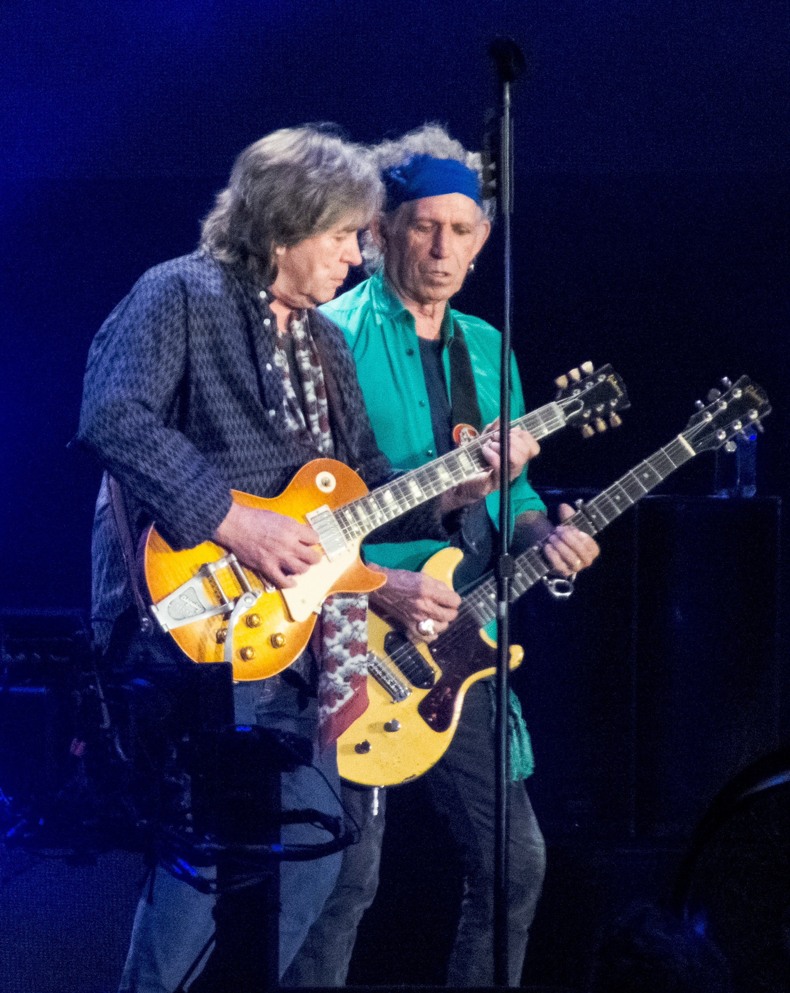 Keith Richards (right) with Mick Taylor at British Summer Time Festival in Hyde Park during a Rolling Stone concert, July 6, 2013.